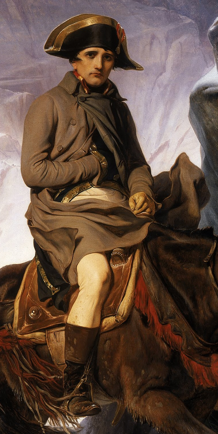 Cropping of Image:Delaroche - Bonaparte franchissant les Alpes.jpg .